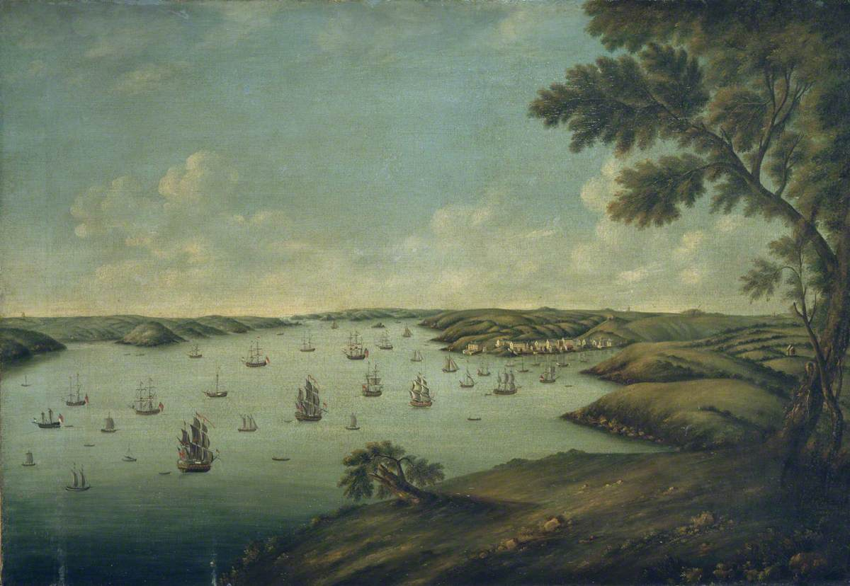 View of the harbour of Milford Haven, by George Attwood, 1776. Fleet assembled may be carrying reinforcements to the American War of Independence. The hamlet of Hakin Hubberston is visible, which would form the nucleus of the later town of Milford Haven.